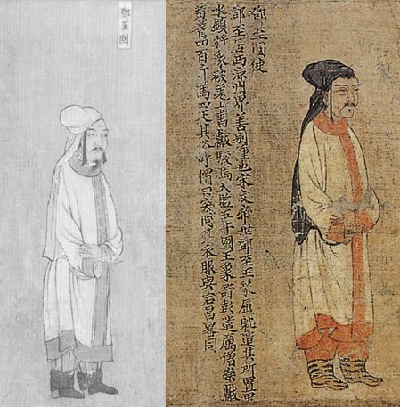 Qiang tributaries depicted in periodical offering paintings 6-7th centuries.